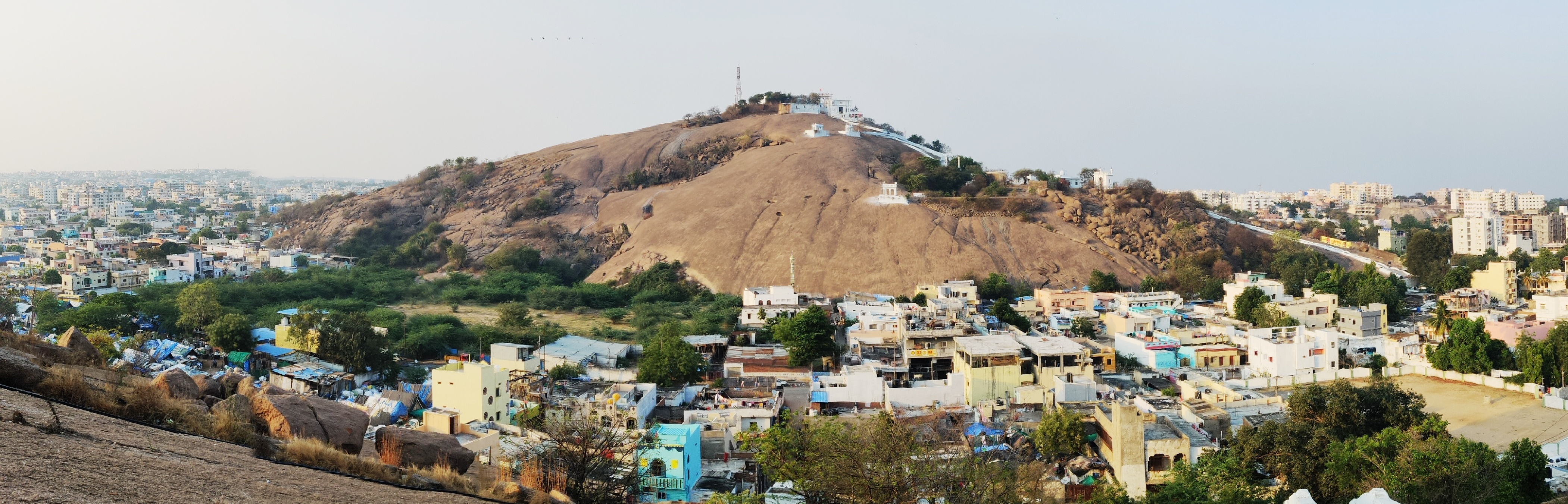 hill23